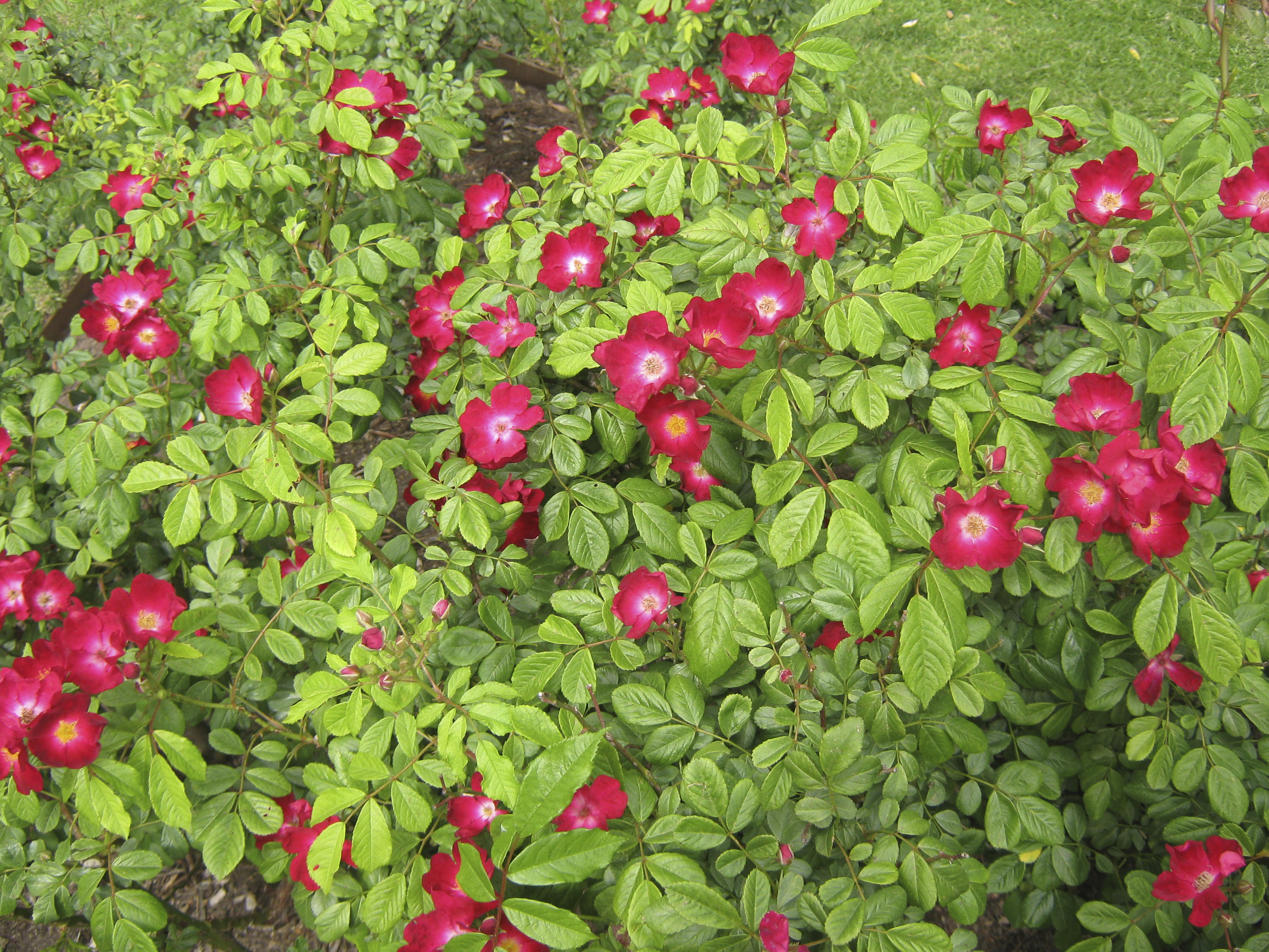 Rose 'Claret Cup' released Riethmuller 1962; photographed in the Royal Melbourne Botanic Gardens